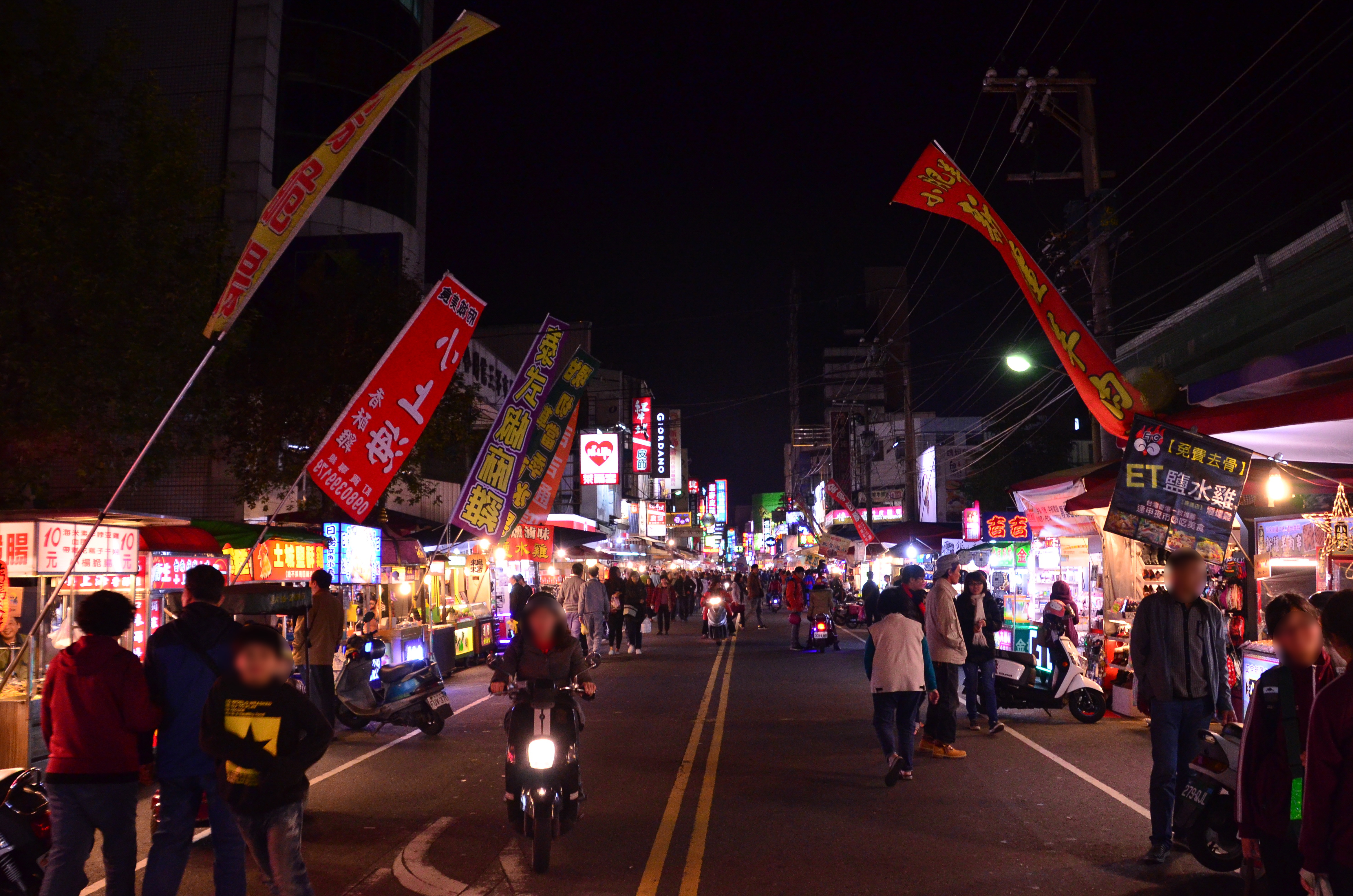 Night market at Wenhua Road, near Lanjing Street, Chiayi City, Taiwan.